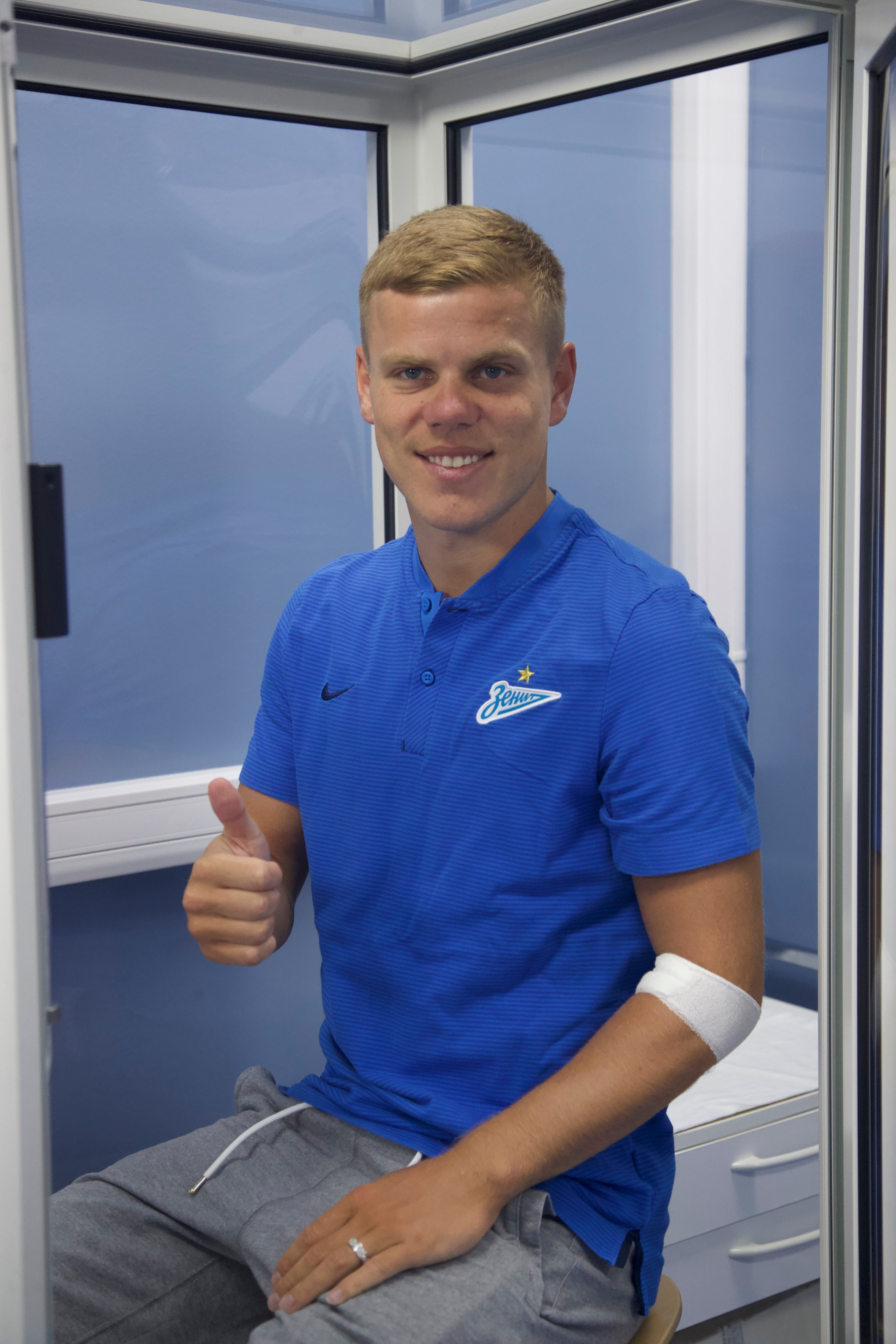 Kokorin in Sogaz medical center, January 2020